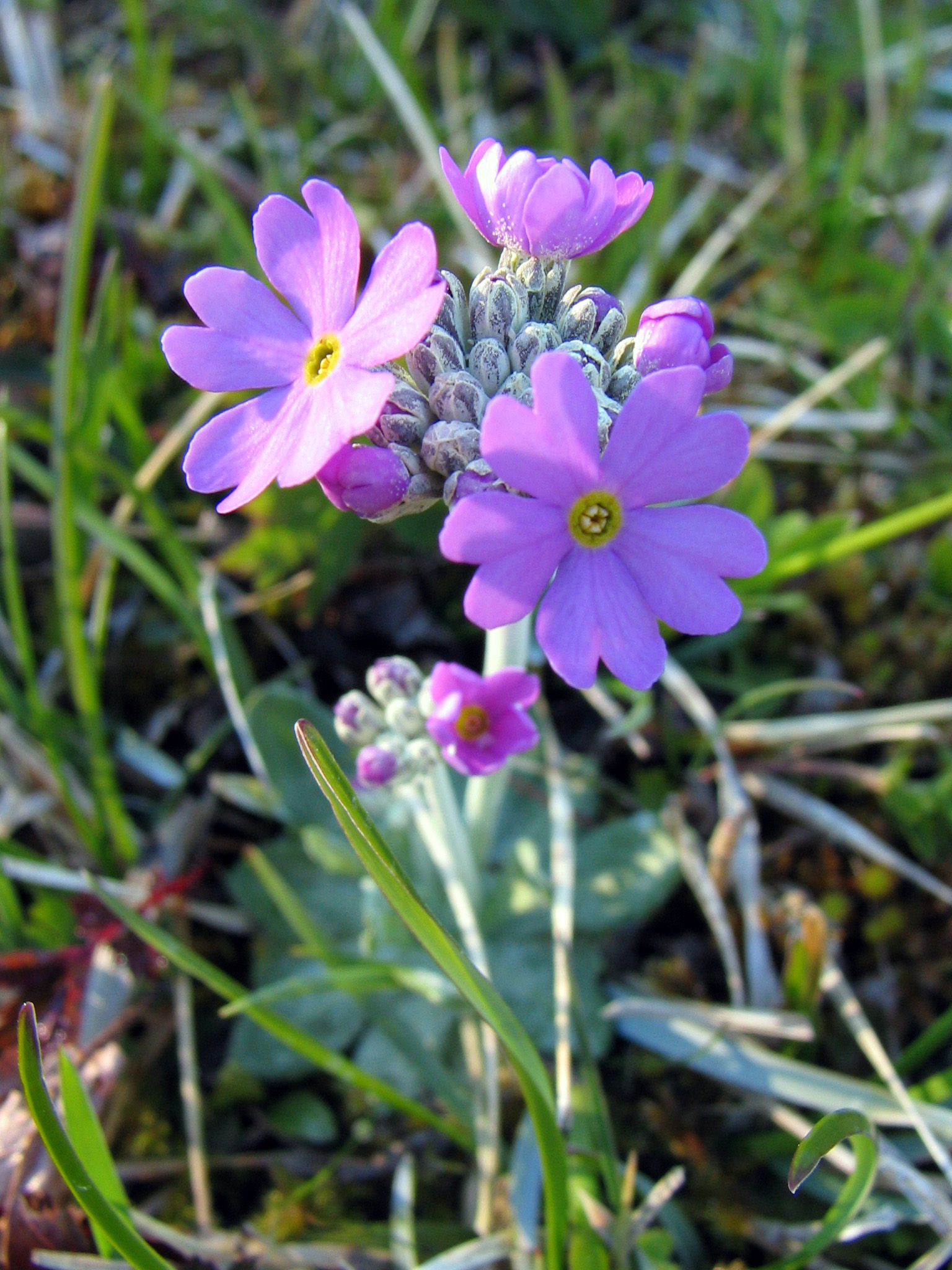 Primula farinosa. Bird's-eye primrose.